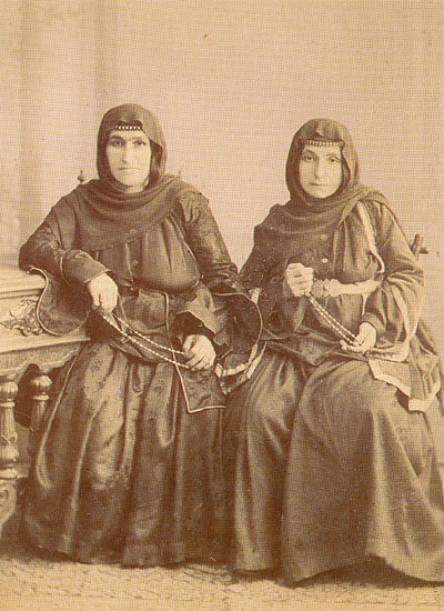 Armenian women from Gandzak (nowdays Ganja in Azerbaijan)